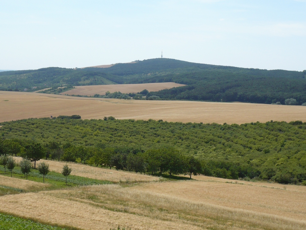 Observation Tower Bukovany mill - Windmill - example of the view